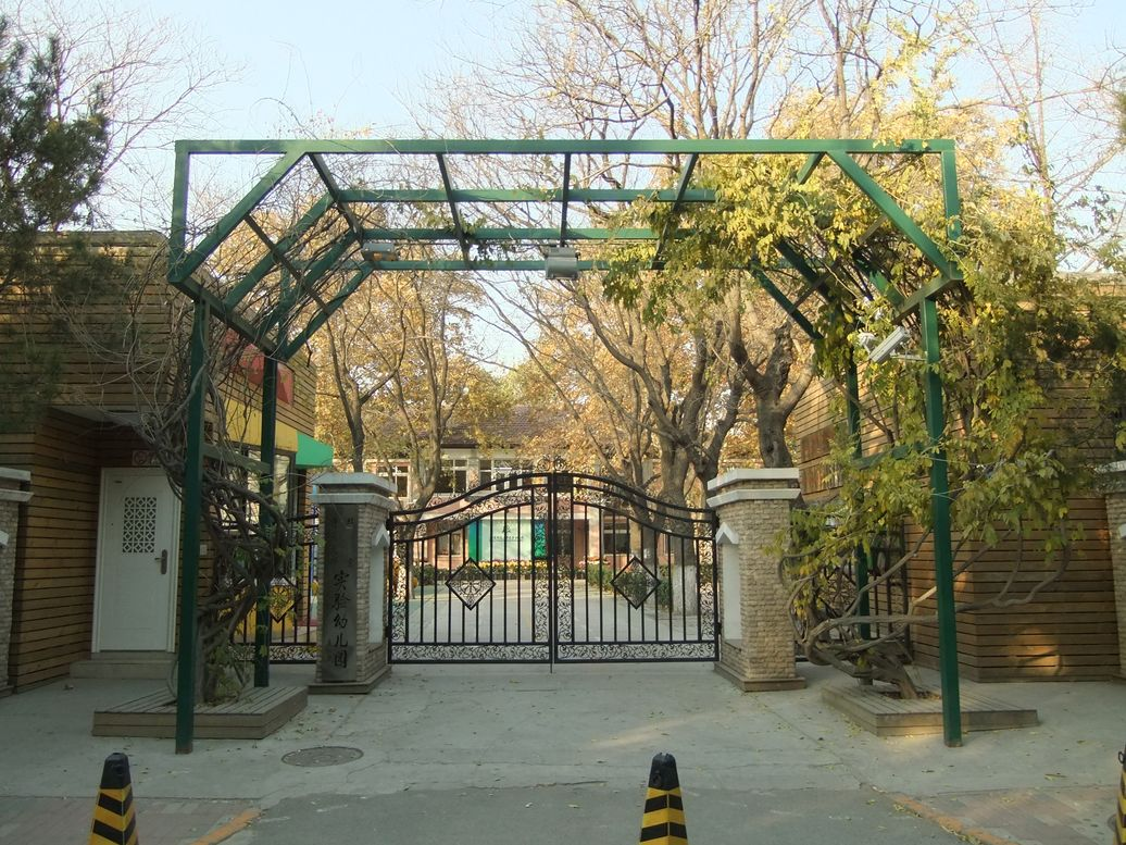 北京师范大学实验幼儿园 - Experimental Kindergarten of Beijing Normal University - 2010.11